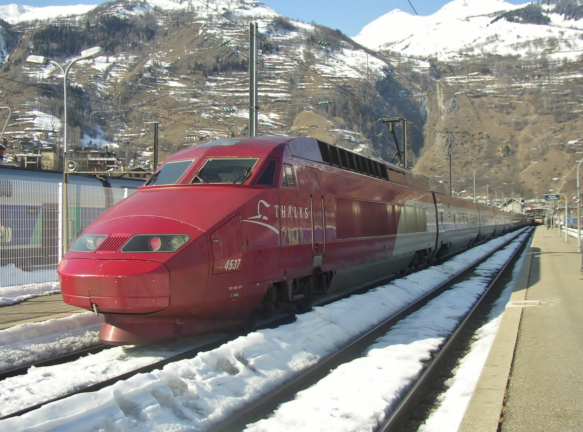 Thalys PBA n°4537 arrived from Belgium here stopped at Bourg-Saint-Maurice railway station in Savoie (France) during the winter holidays.